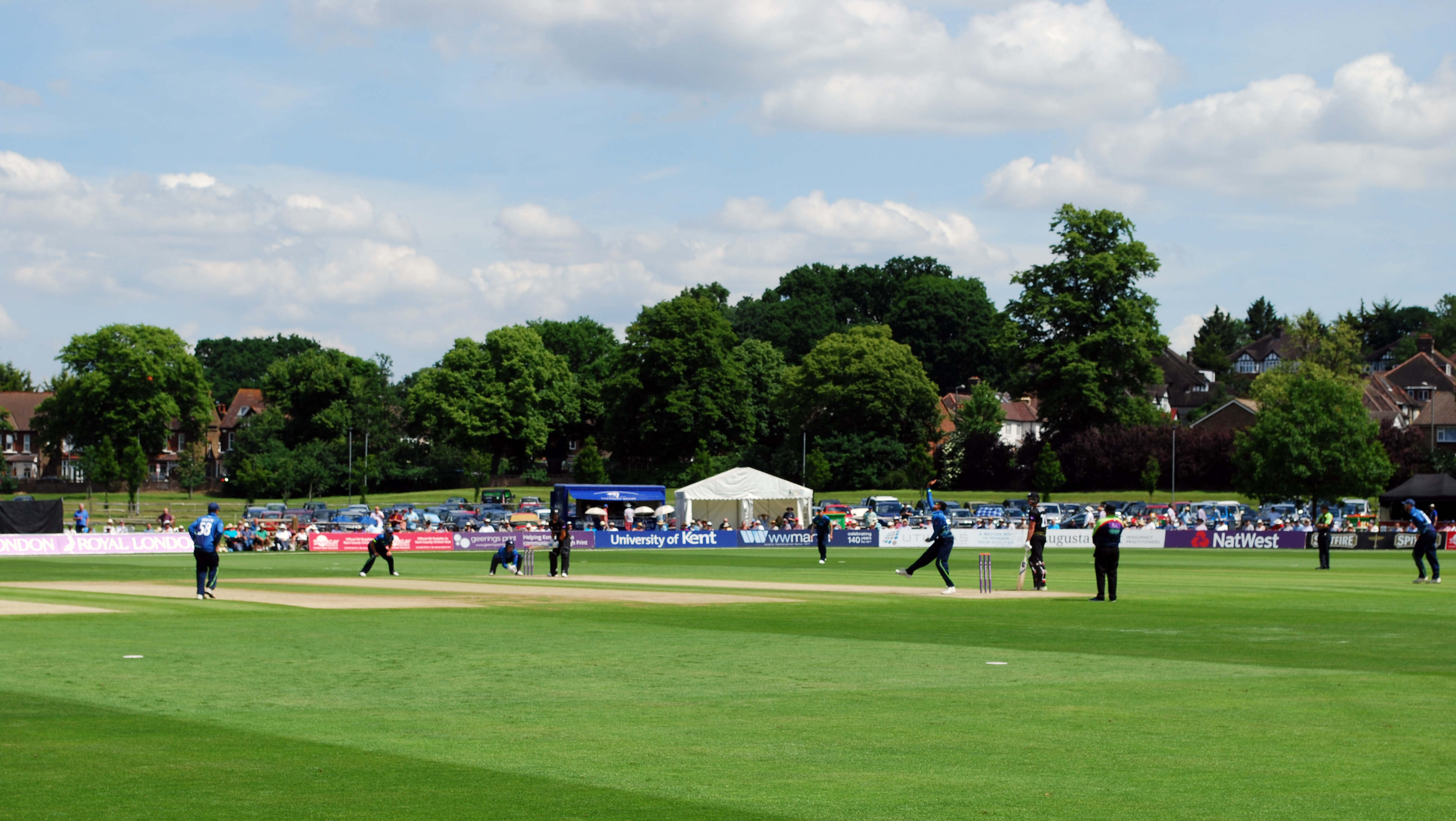 The Kent County Cricket Ground at Beckenham during a One Day Cup match between Kent and Gloucestershire in June 2018